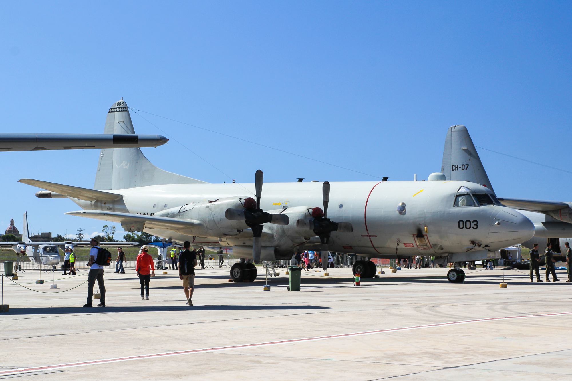 US Navy Lockheed P-3C Orion at the 2015 Malta International Airshow